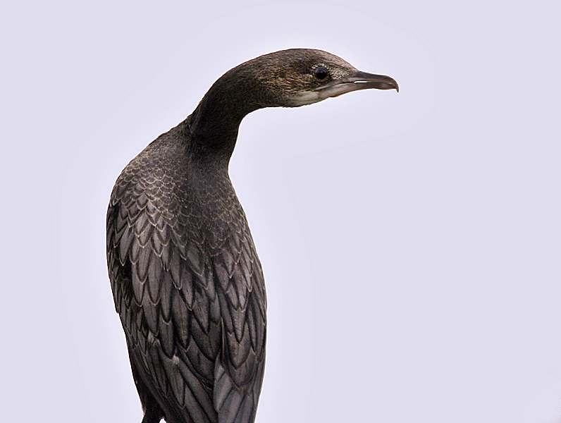 Little Cormorant Phalacrocorax niger in Kolkata, West Bengal, India.